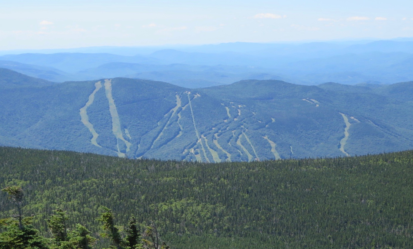 Loon Mountain in New Hampshire, viewed from Mount Flume